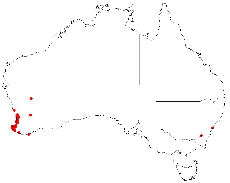 Anigozanthos viridis occurrence data Downloaded from Australasian Virtual Herbarium 12 May 2017